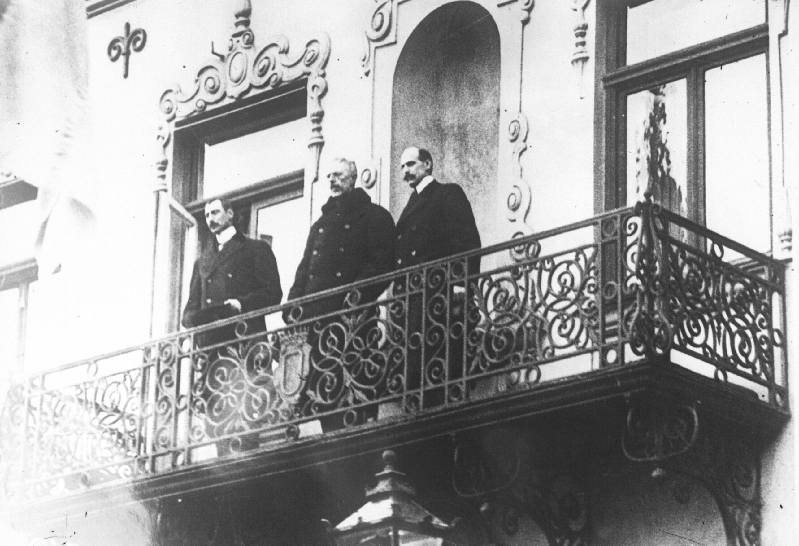 From right to left: King Haakon VII of Norway, king Gustav V of Sweden, and king Christian X of Denmark. From the meeting of the three Scandinavian kings at Malmö, Sweden in December, 1914.